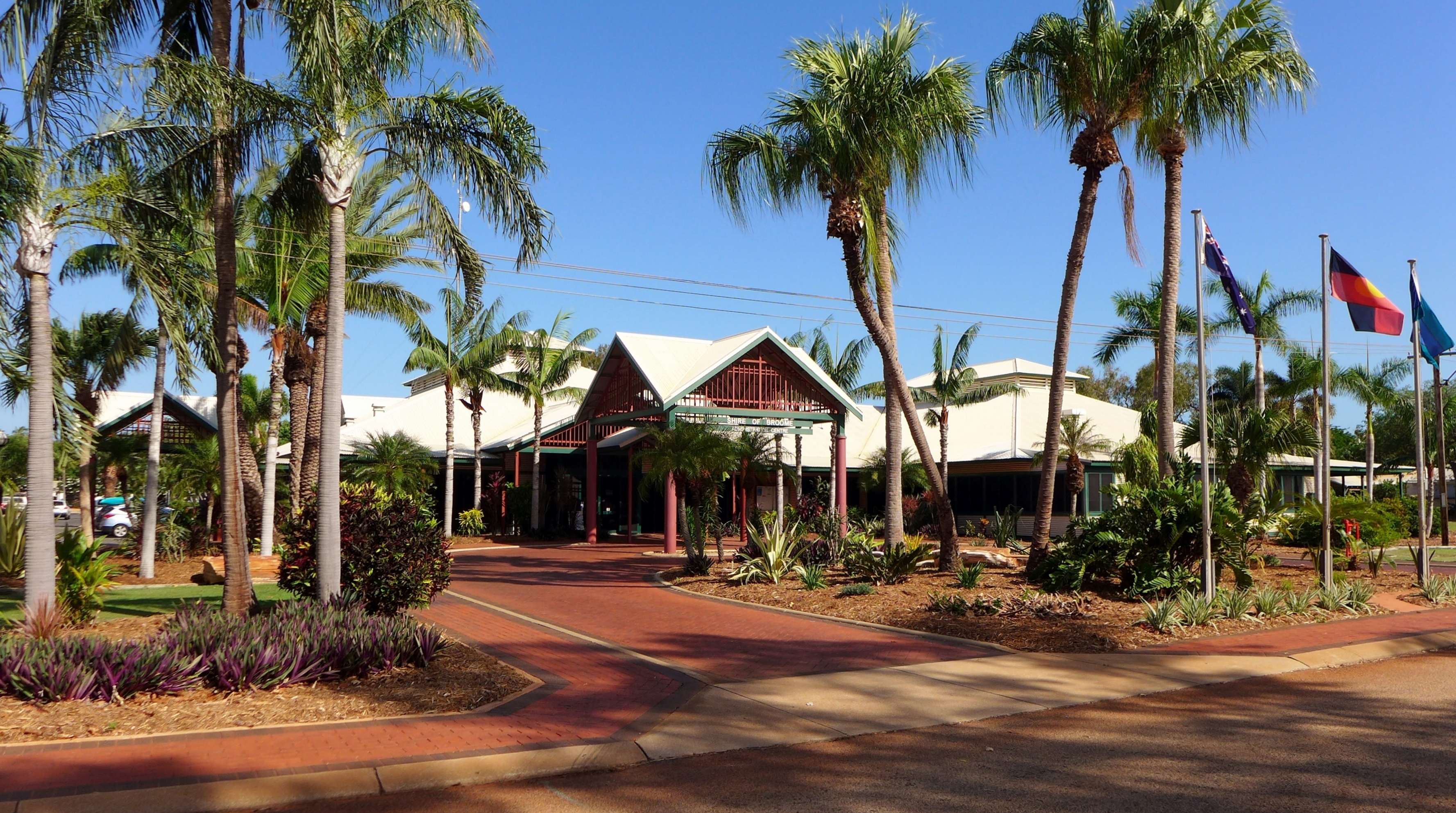 View of the Broome Shire Administration Centre, cnr Weld and Hass Streets, Broome, Western Australia